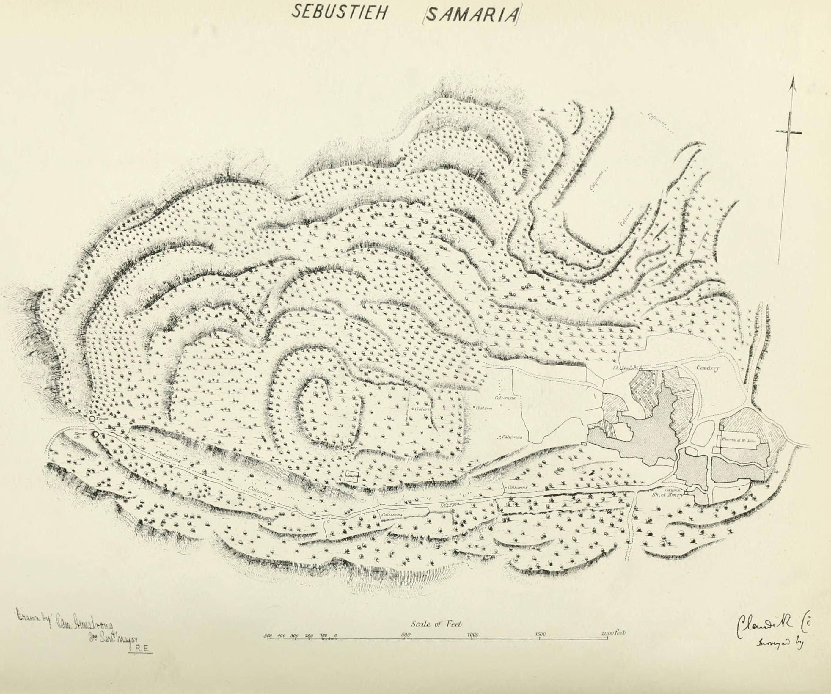 Sebastia from the 1871-77 Palestine Exploration Fund Survey of Palestine